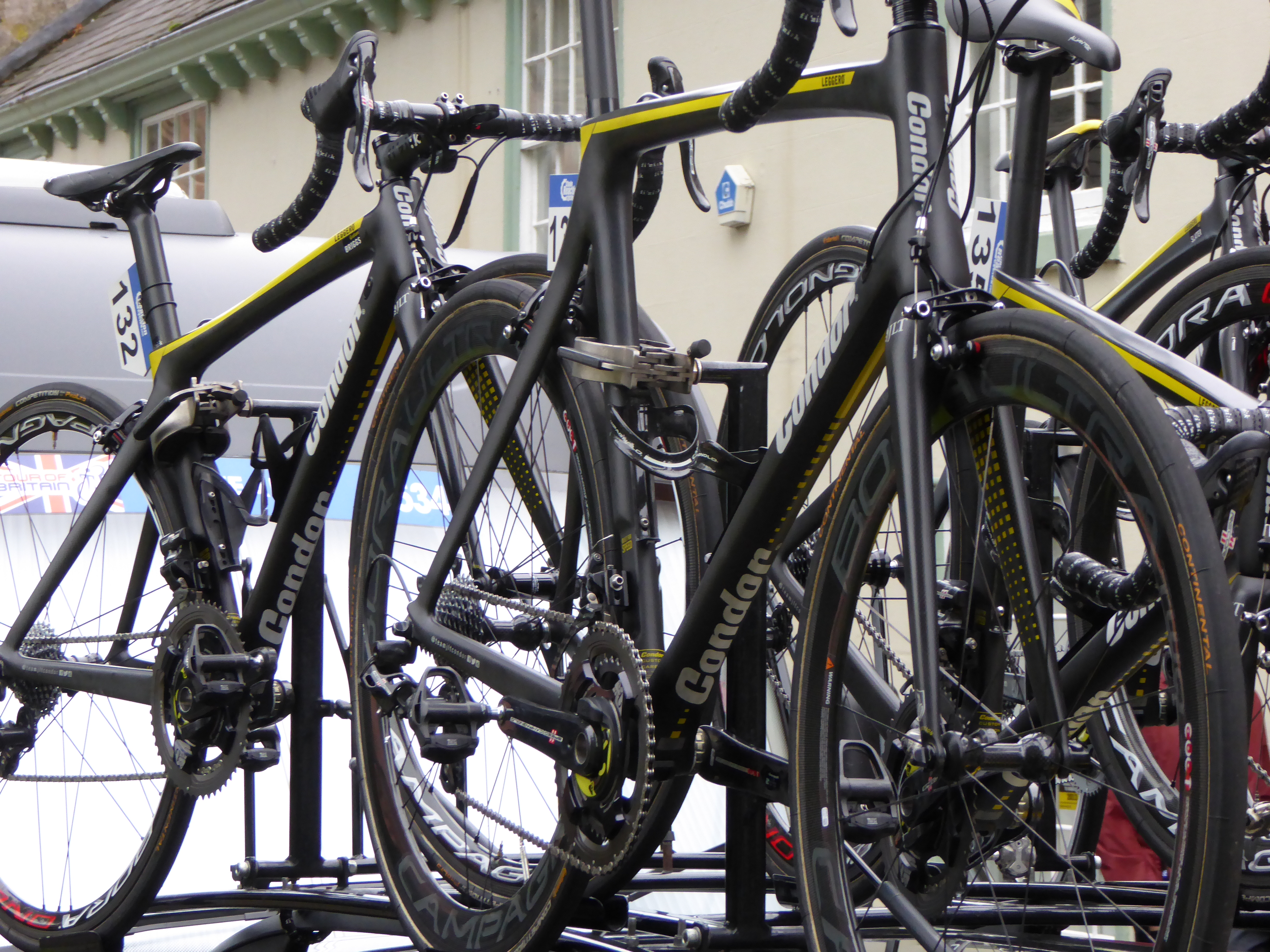 The Condor bikes of the JLT-Condor team, pictured before Stage 2 of the 2016 Tour of Britain in Carlisle on 5 September 2016.